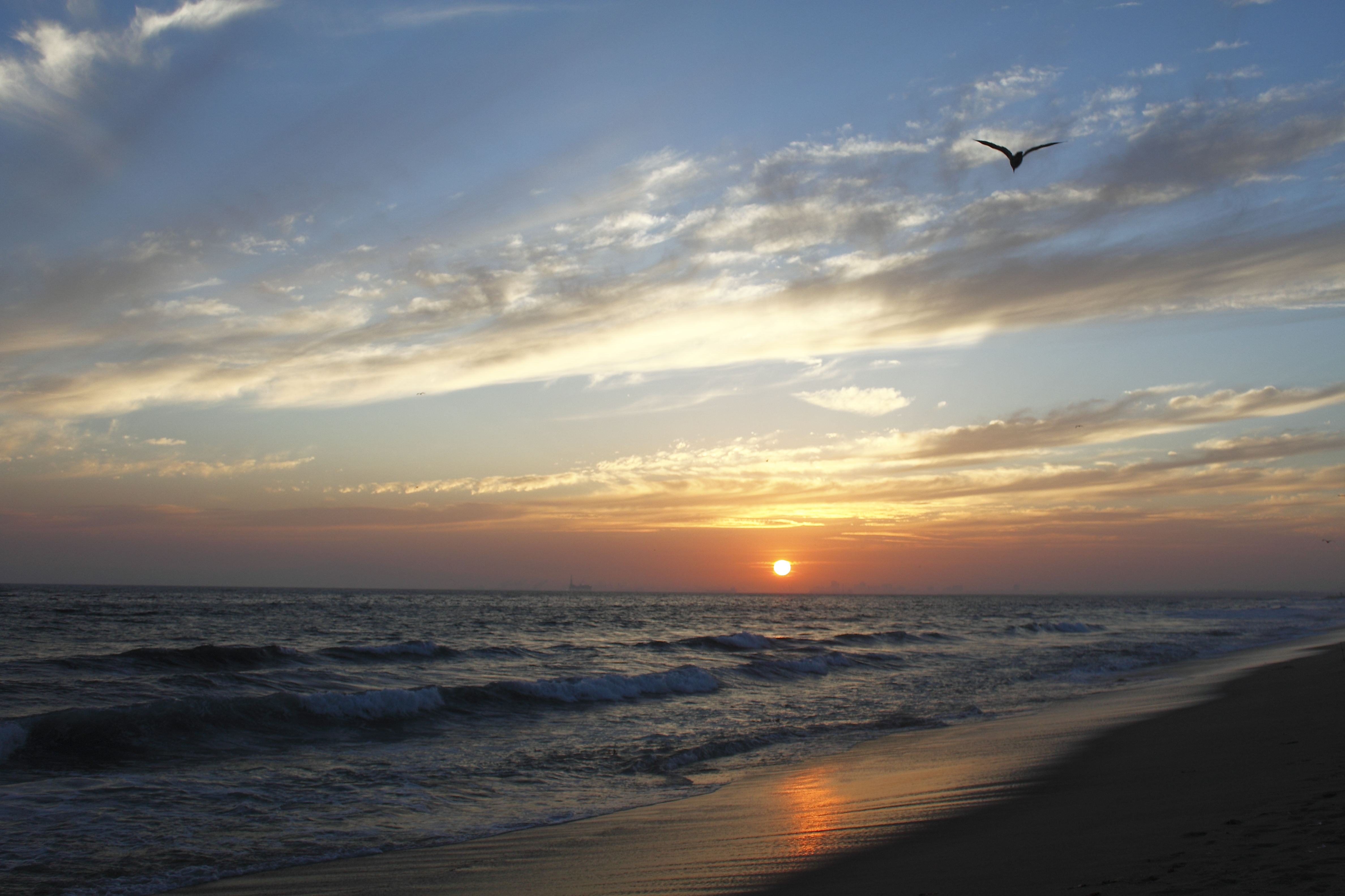 A typically dramatic sunset with Long Beach and the Ports in the distance